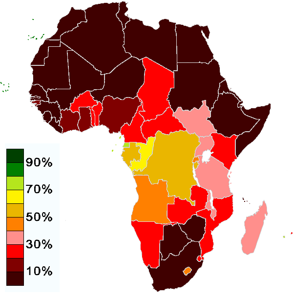 Map of Catholic population percentages in Africa